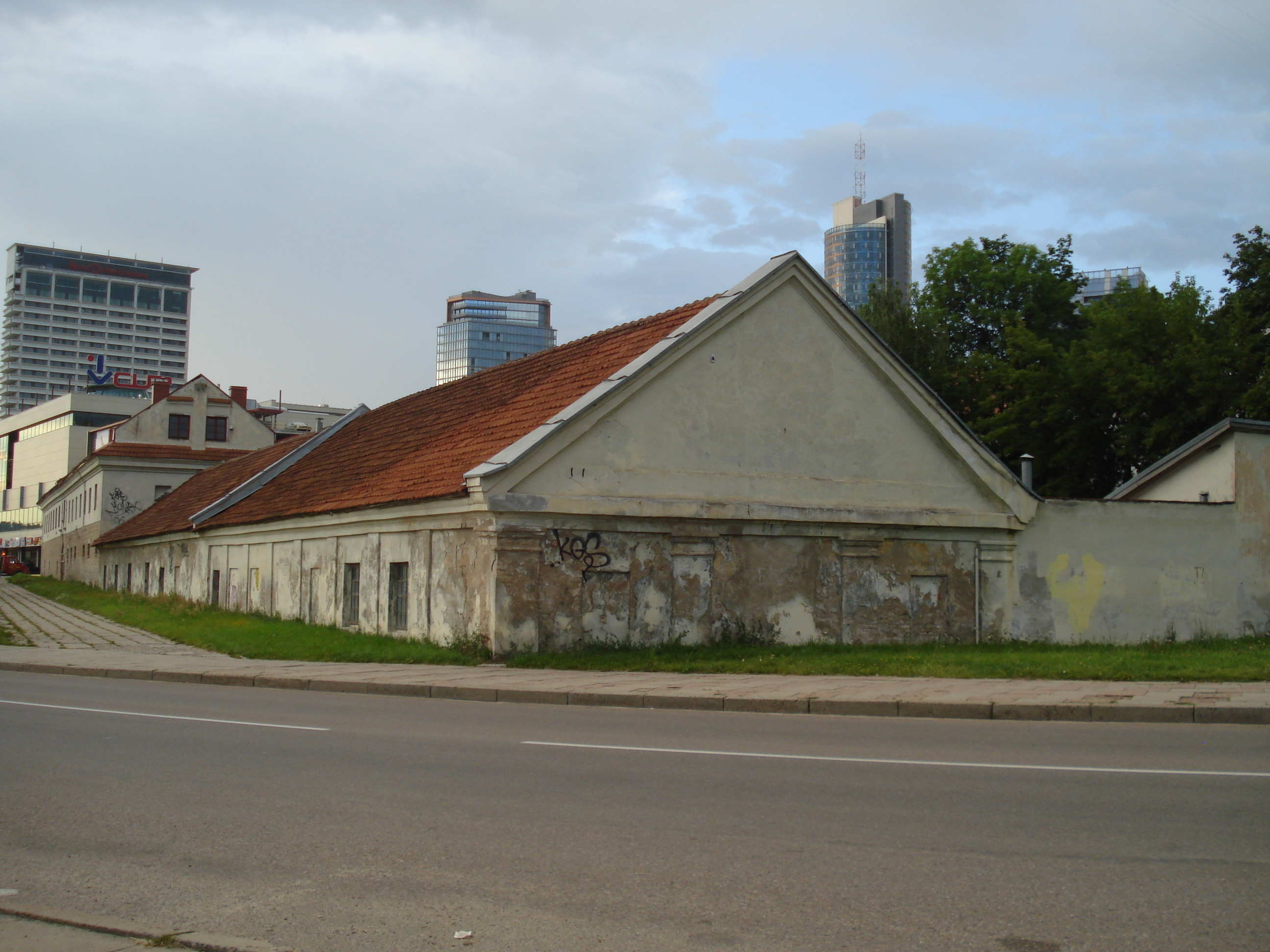 Former monastery belonged to the Jesuits at the Church of the St Raphael the Archangel in Vilnius (Šnipiškių g. 1)